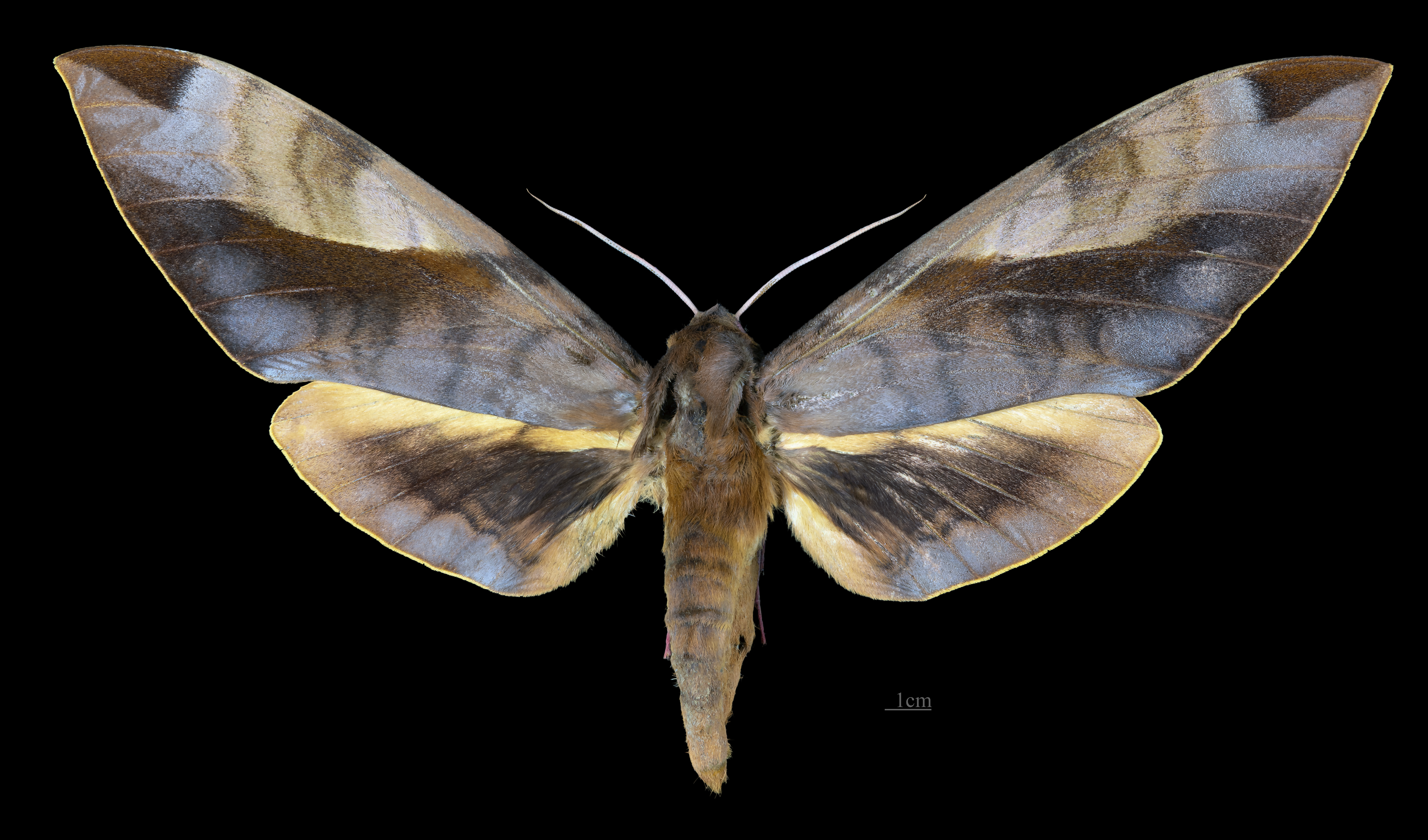 Clanis hyperion - Dorsal side Collection of the Mathematician Laurent Schwartz